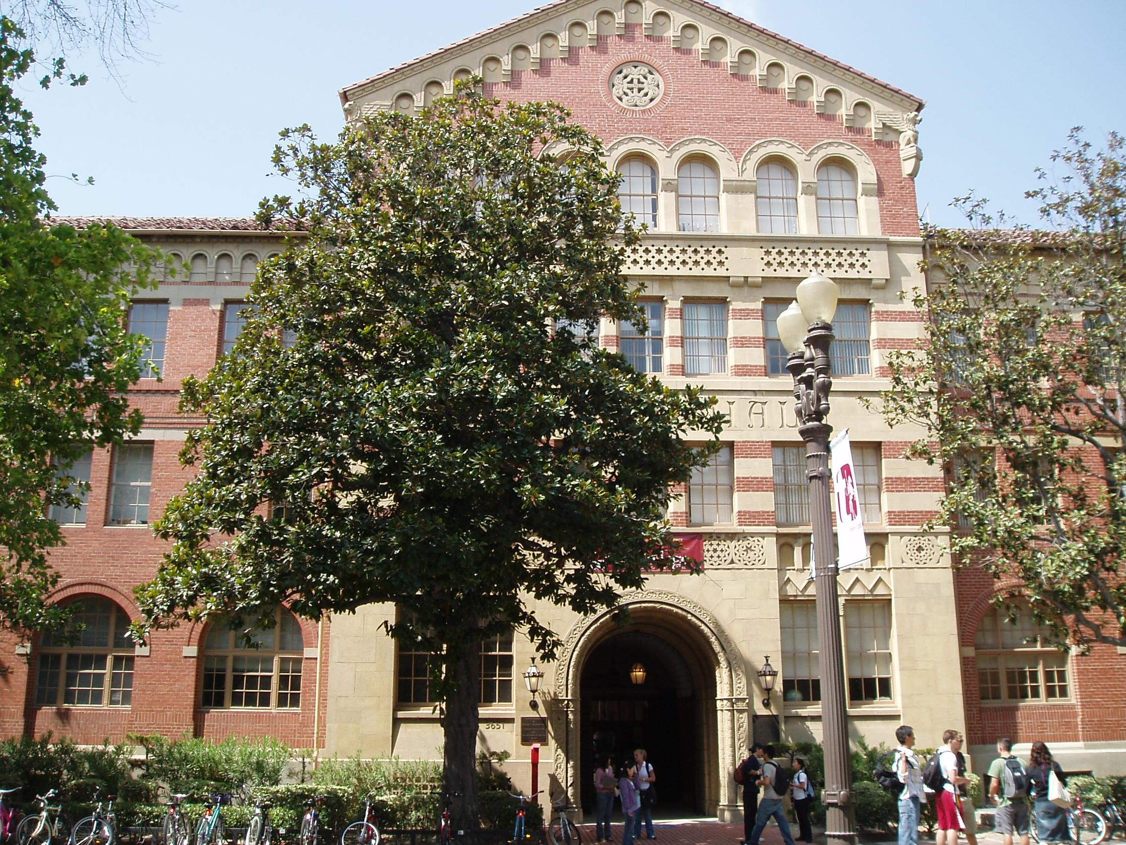 The Zumberge Hall of Science on the USC-University of Southern California campus building. Housing the Southern California Earthquake Center. The 1928 Romanesque Revival style building was designed by John and Donald Parkinson. Credits Photo taken in 2007 by Padsquad. Please observe license and properly cite in use outside Wikipedia.